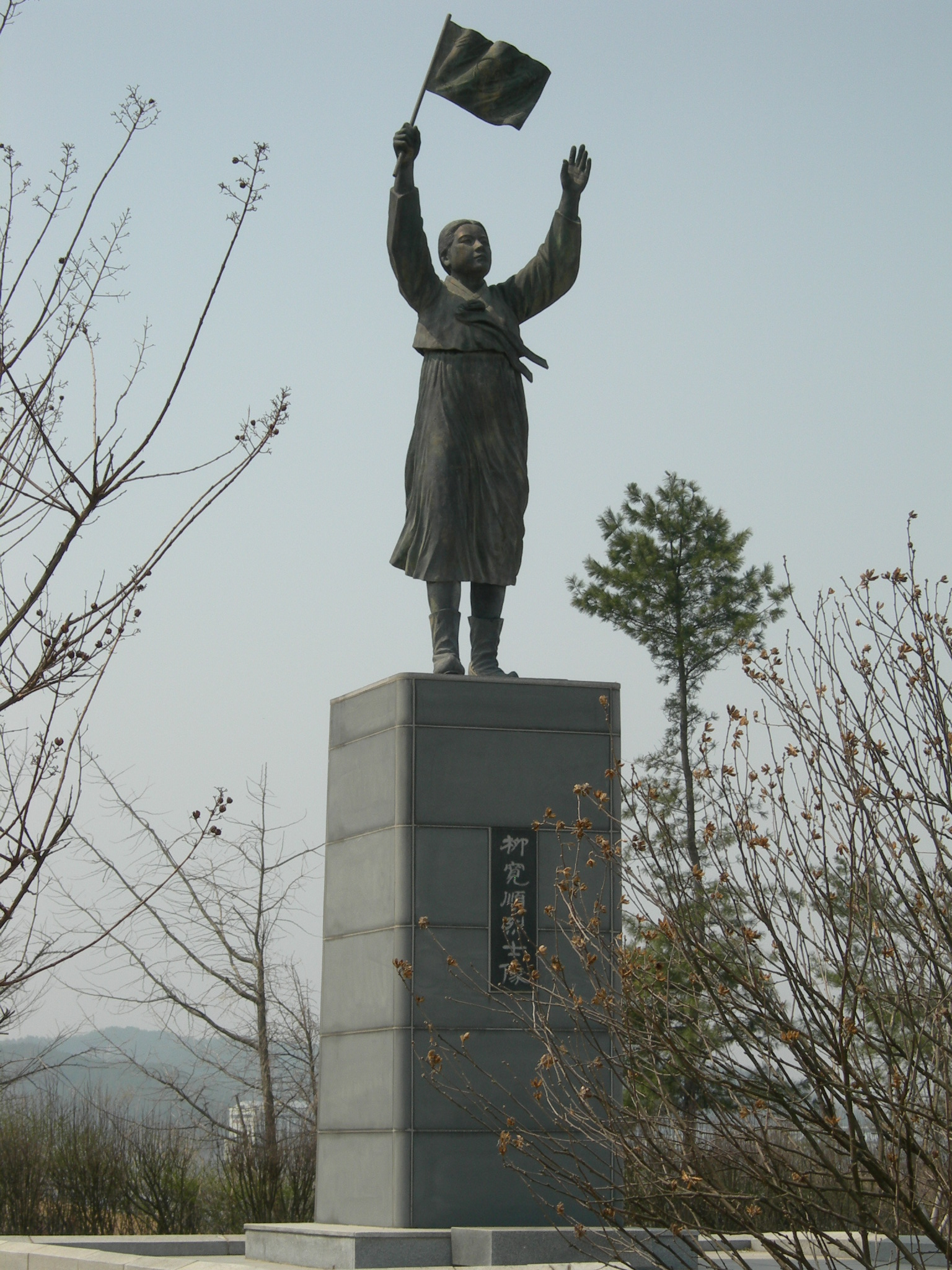 Bronze Statue of Yu Gwan-sun from the Yu Gwan-sun memorial hall